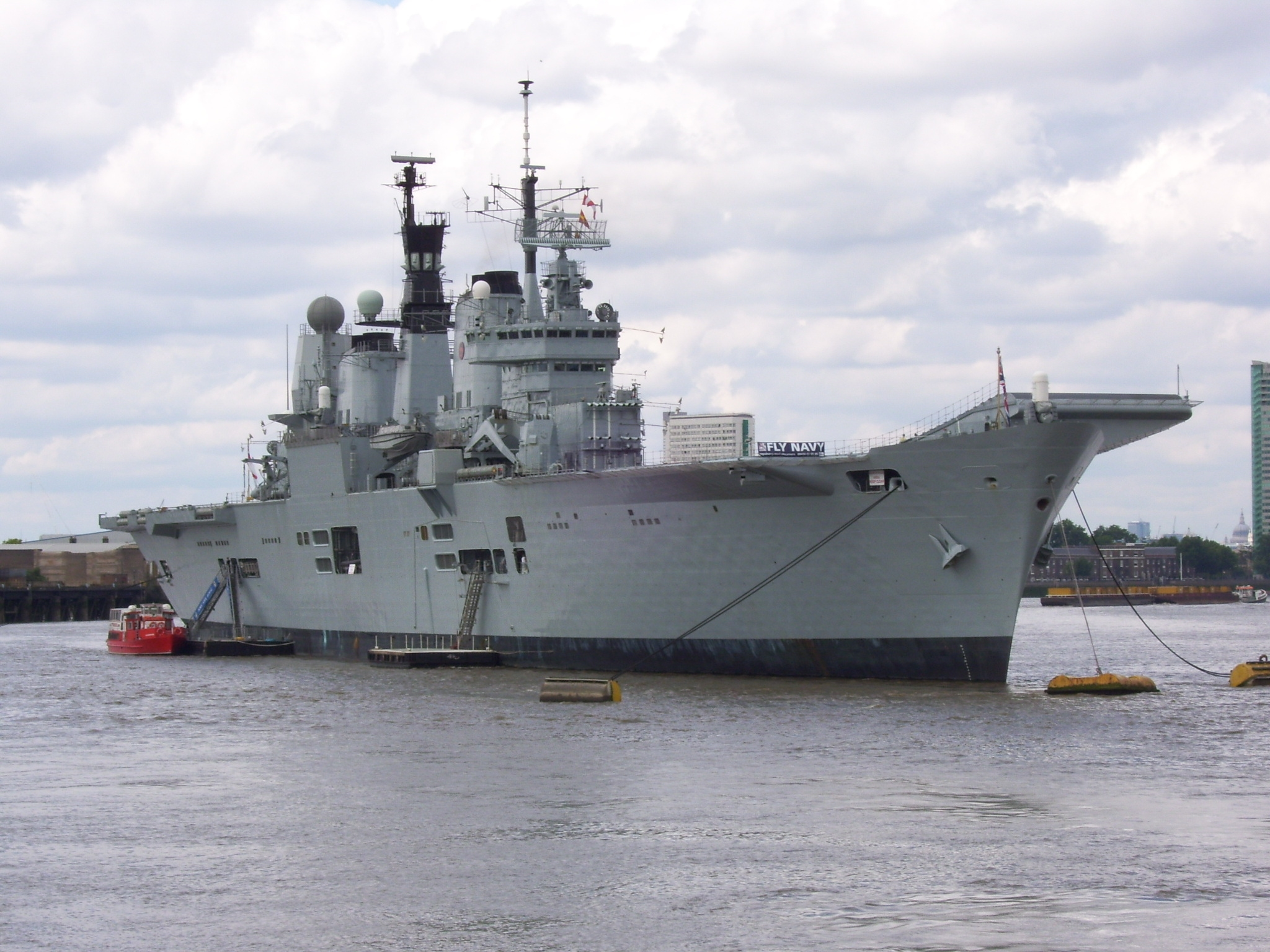 HMS Ark Royal (R07) at Greenwich.